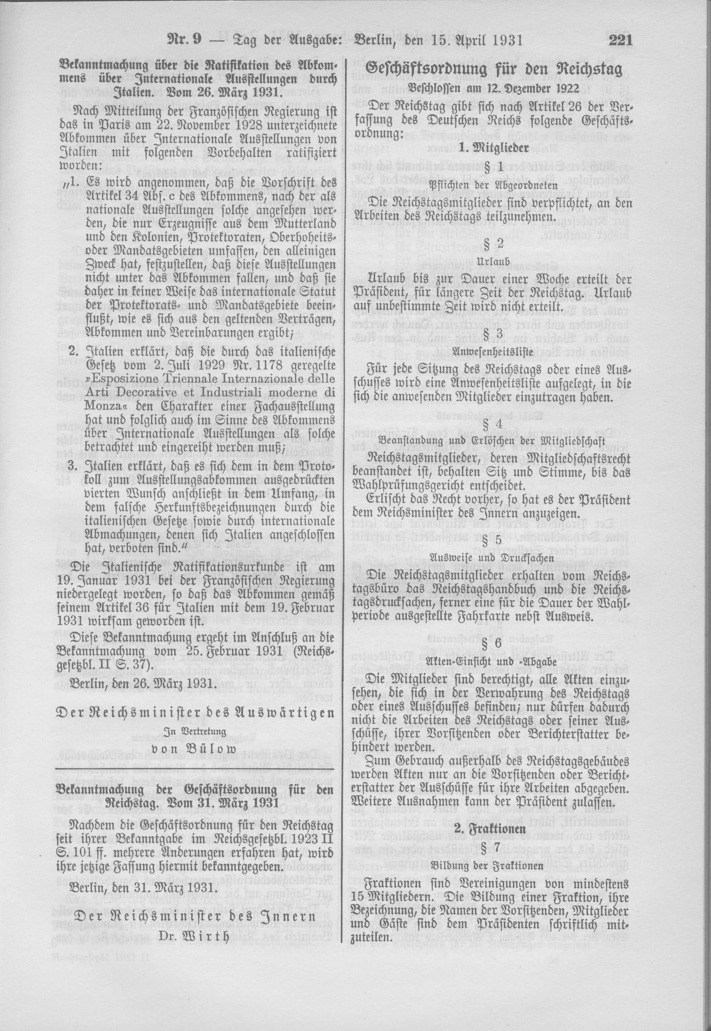 Scan from the Imperial Law Gazette of Germany, 1931, part 2